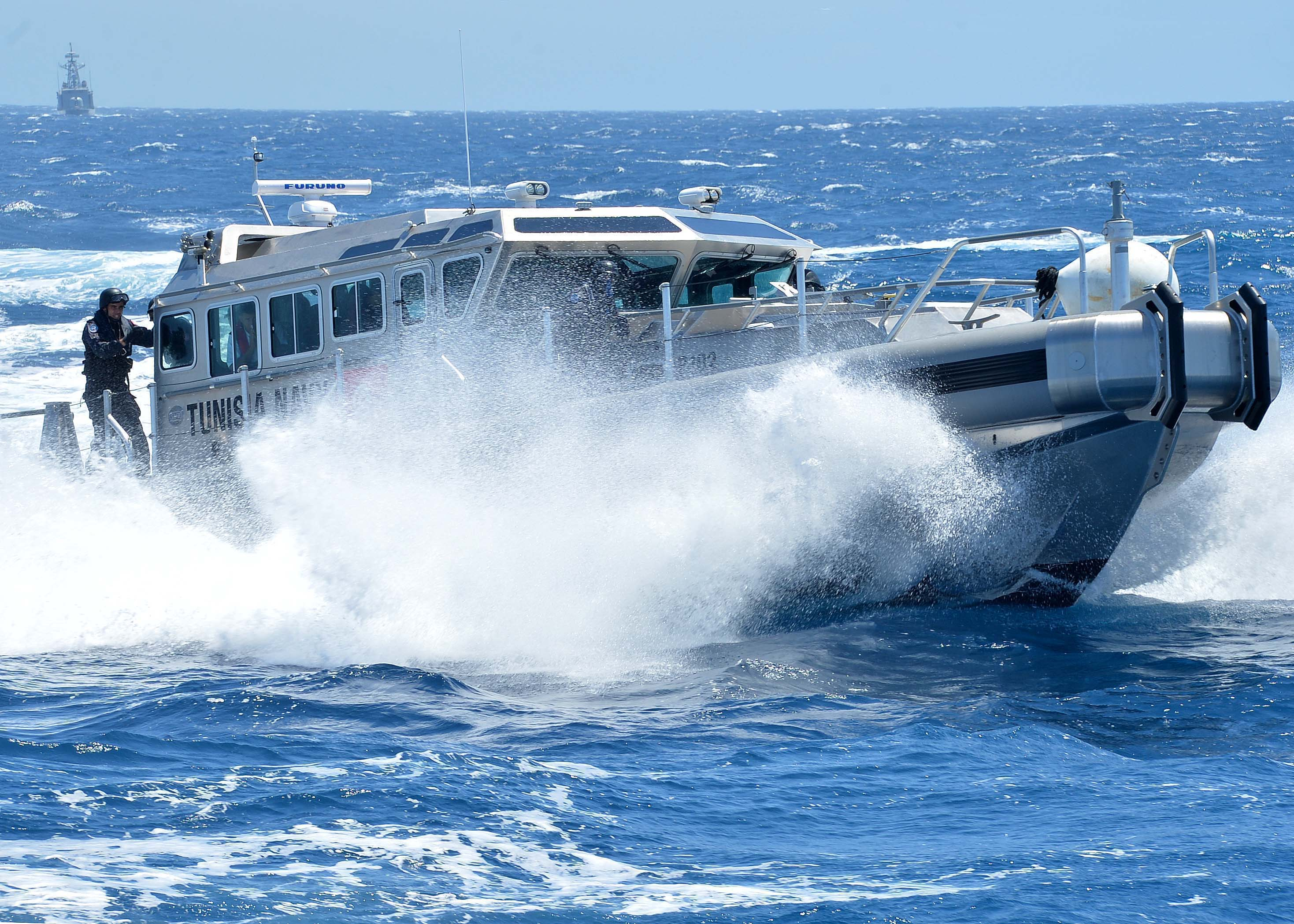 A Tunisian naval vessel approaches a target vessel during the at-sea portion of Exercise Phoenix Express 2016. Phoenix Express, sponsored by U.S. Africa Command (AFRICOM) and facilitated by U.S. Naval Forces Europe-Africa/U.S. 6th Fleet, is designed to improve regional cooperation, increase maritime domain awareness information-sharing practices, and operational capabilities to enhance efforts to achieve safety and security in the Mediterranean Sea.